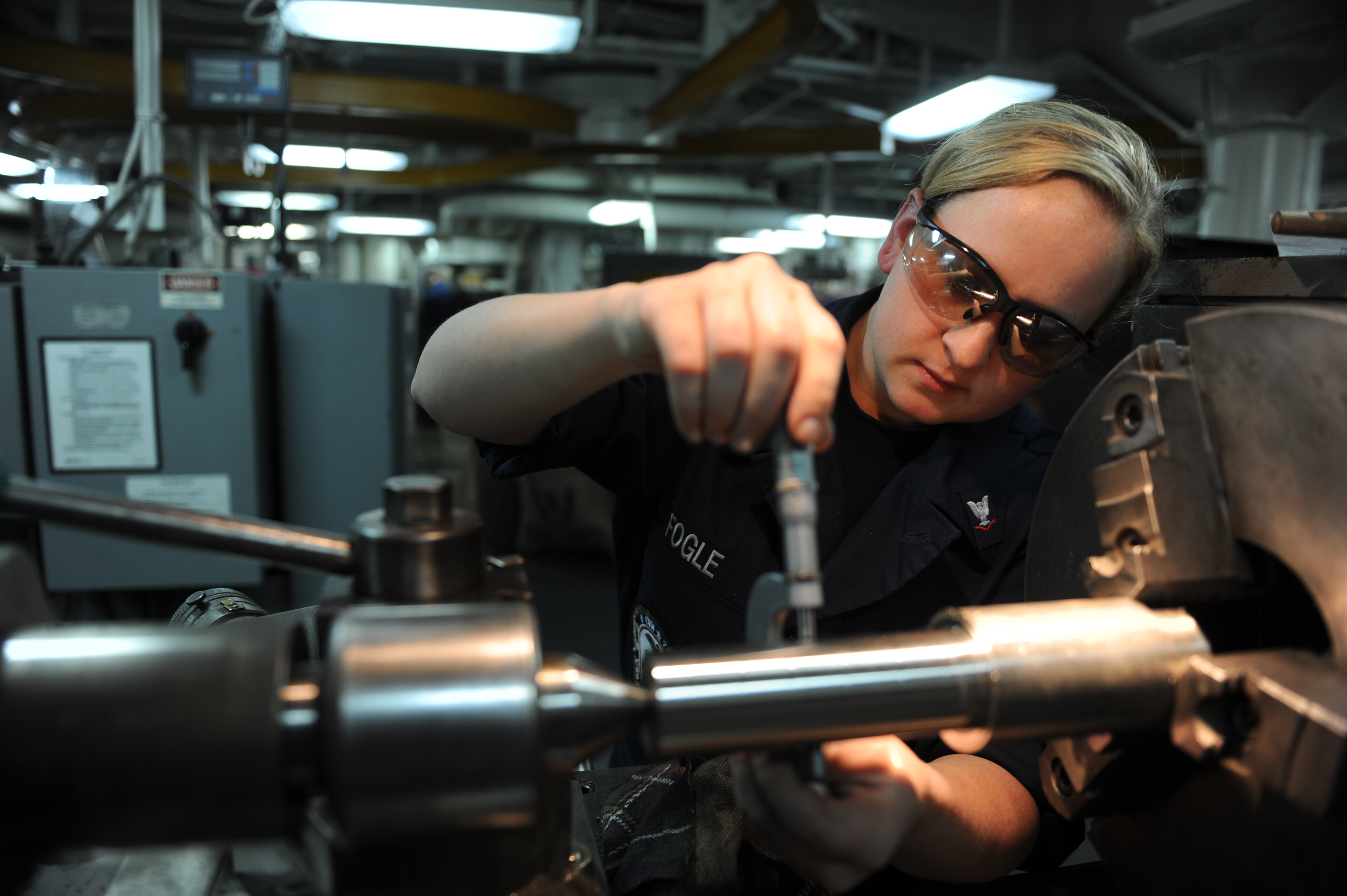 PACIFIC OCEAN (April 6, 2011) Machinery Repairman 3rd Class Heather Fogle, from Midlothian, Texas, checks the outside diameter of a shear pin in the machinery repair shop aboard the Nimitz-class aircraft carrier USS John C. Stennis (CVN 74). John C. Stennis is returning to homeport in Bremerton, Wash. after completing carrier pilot qualifications for fleet replacement squadrons off the coast of Southern California. (U.S. Navy photo by Mass Communication Specialist 3rd Class Kenneth Abbate/Released)